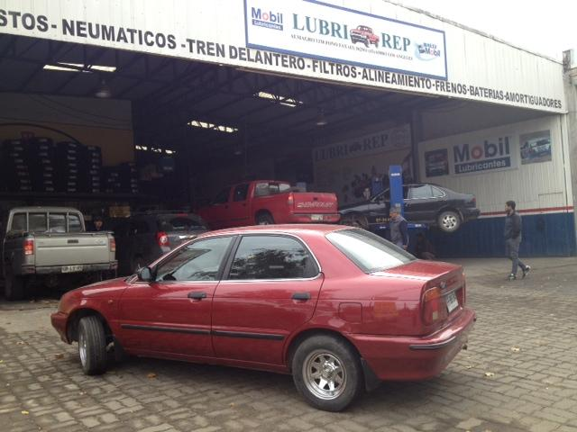 Suzuki Cultus Crescent at a car service shop in Los Ángeles, Chile